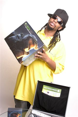 Lil Jon with Xbox 360.